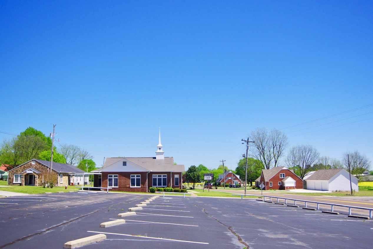 Buildings along Main Street (State Route 22) in Enville, Tennessee, United States.